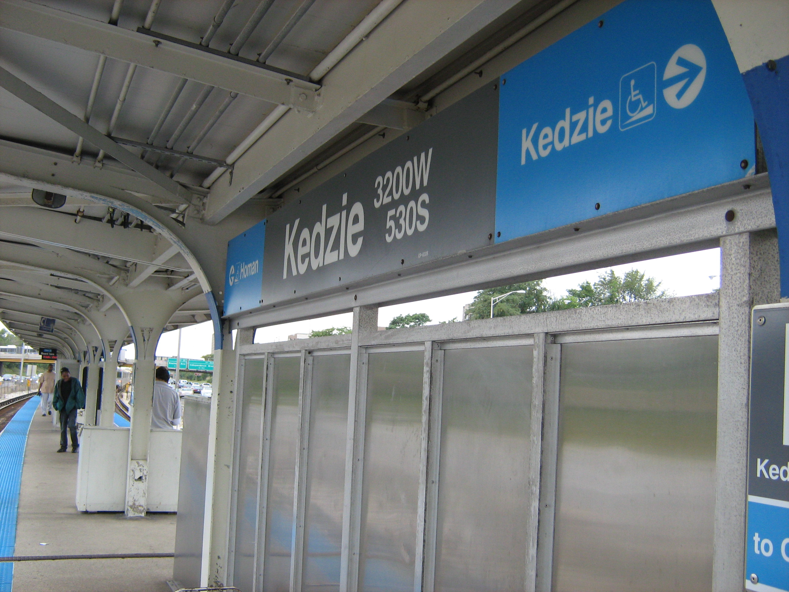 Kedzie-Homan CTA Station